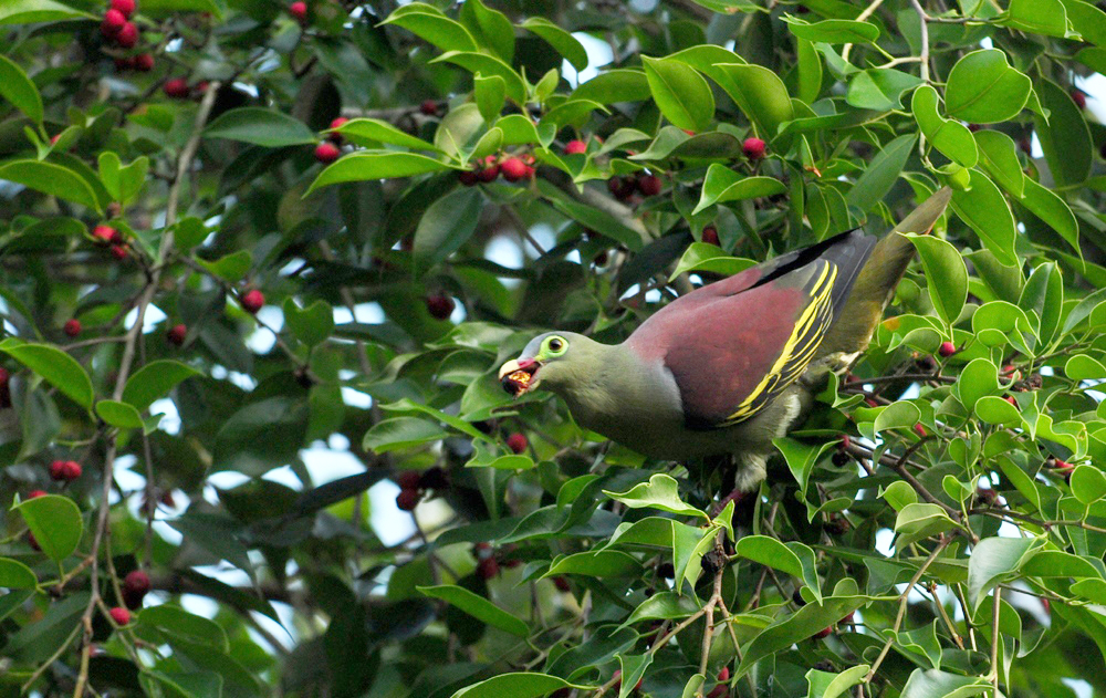 Male Pigeon feeding on ficus